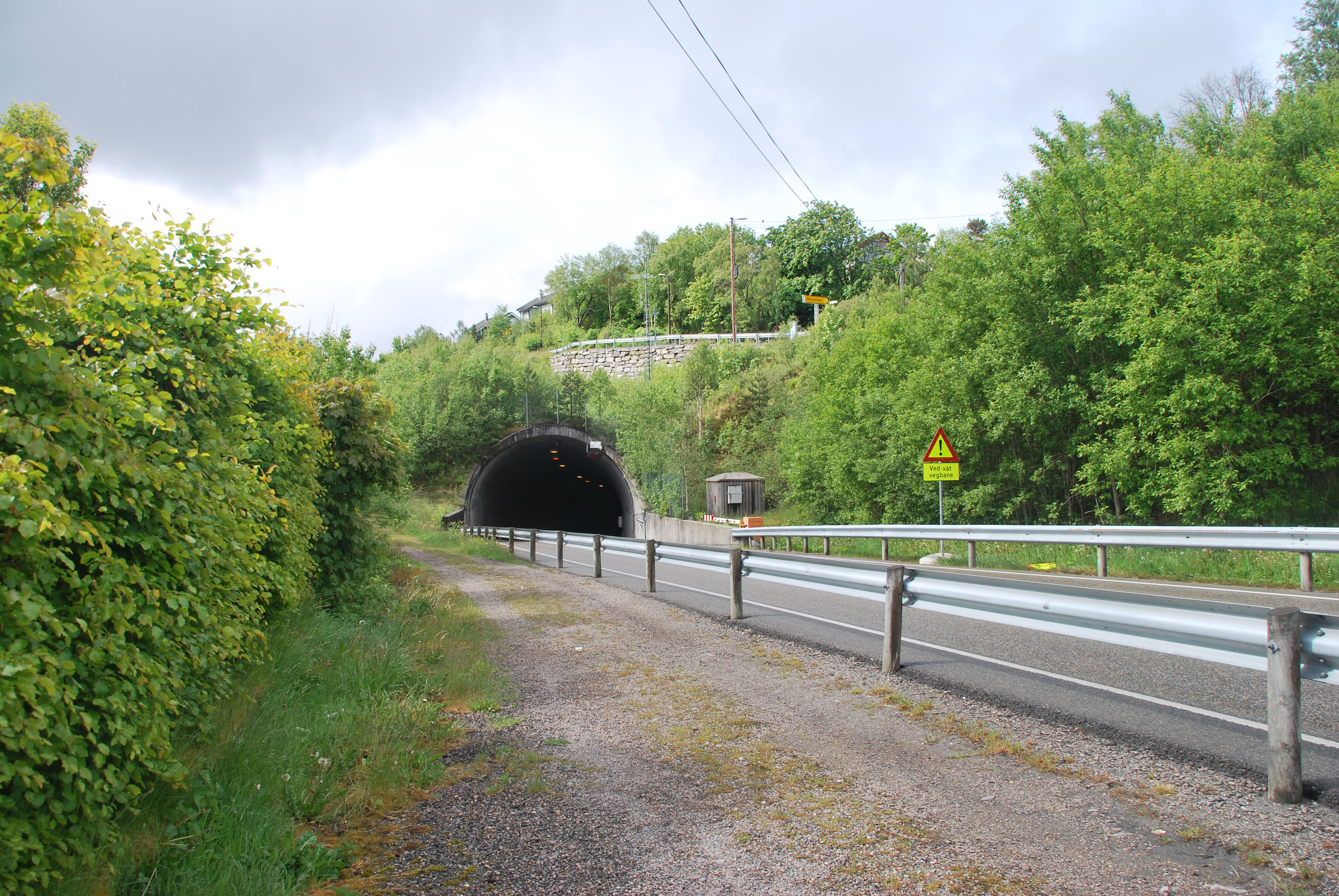 Bjorøytunnel at Håkonshella.